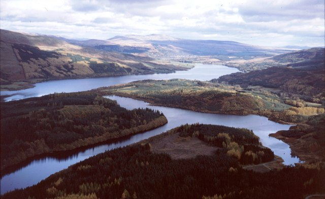 Loch Drunkie This view of Loch Drunkie with Loch Venachar in the background was taken from a model aircraft.